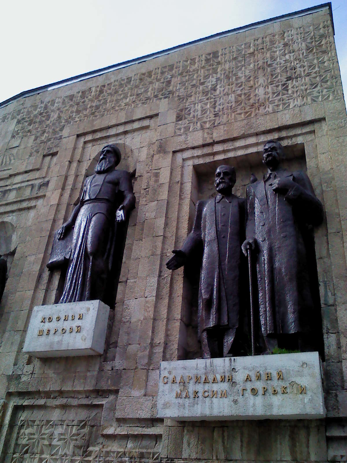 Tajik Writers Union building, Dushanbe